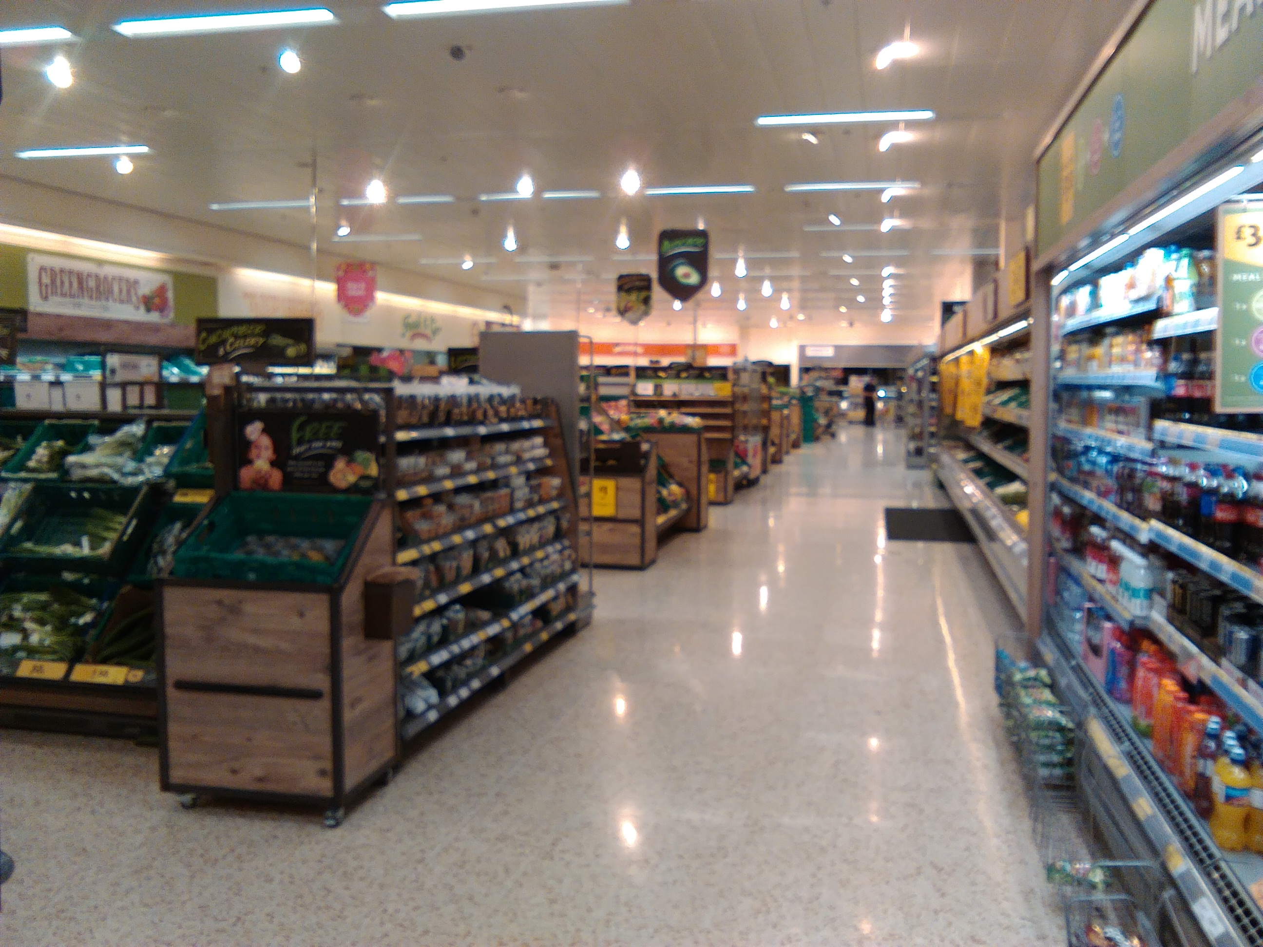 Produce department, Morrisons, Wetherby, West Yorkshire. Taken on the evening of Monday the 14th of June 2019.